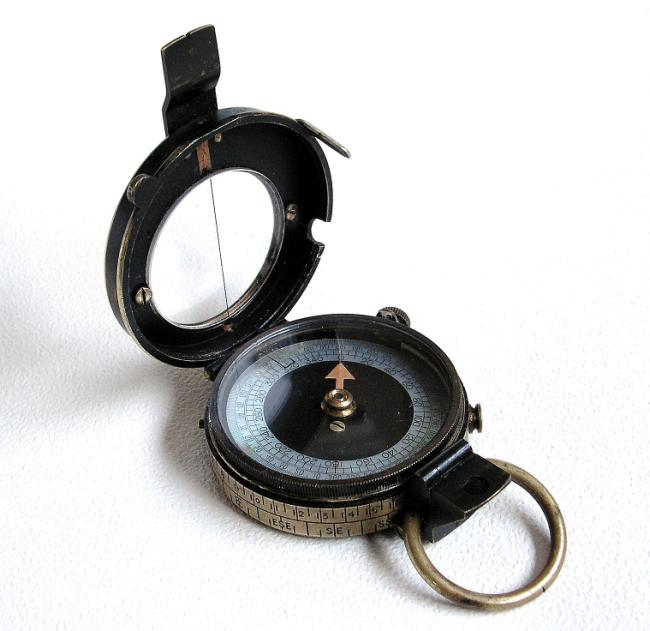 Verner's Pattern no VIII by E.Koehn Geneve Switserland 1918 No: 116563 This is a Verner's pattern no VIII compass, used by the British forces in 1918. It was built by a Swiss Clockmaker, Ed Koehn Verner is William Willoughby Verner Cole.